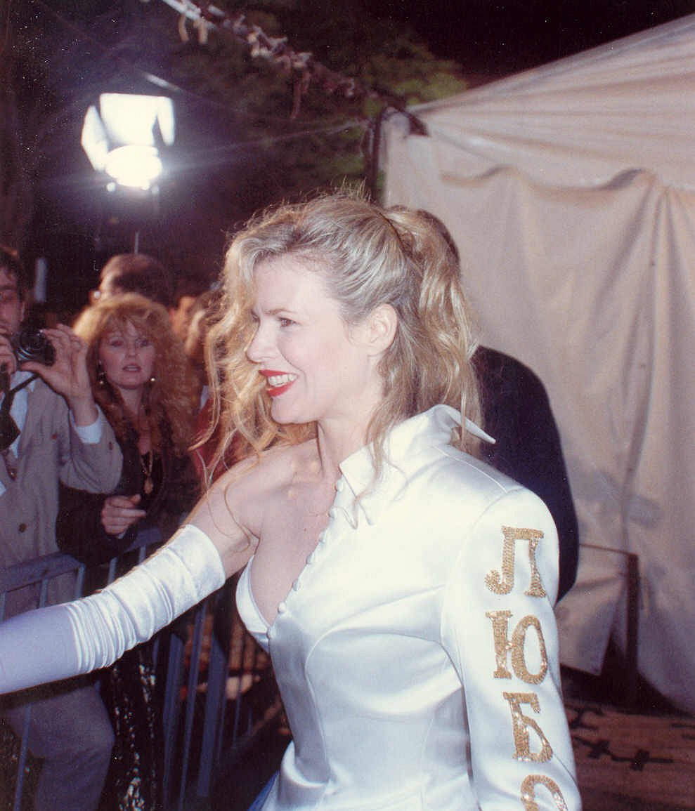 Photo taken at the 62nd Academy Awards 3/26/90 - Permission granted to copy, publish or post but please credit "photo by Alan Light" if you can